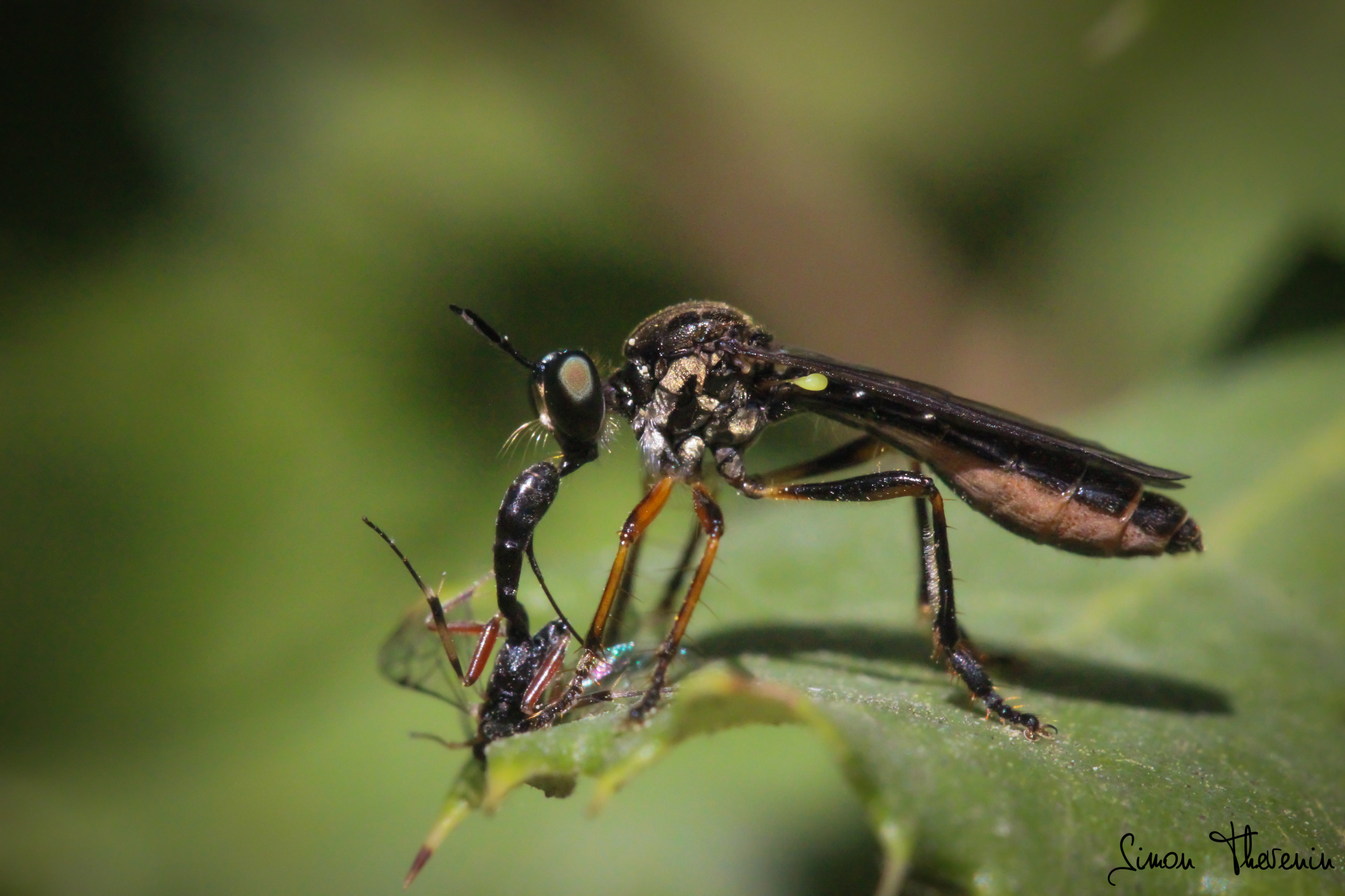 Proxy photographie d'une femelle Dioctria hyalipennis prédatant une espèce d'Ichneumonidae, prise par Simon Thevenin à Rognes le 08/05/2020